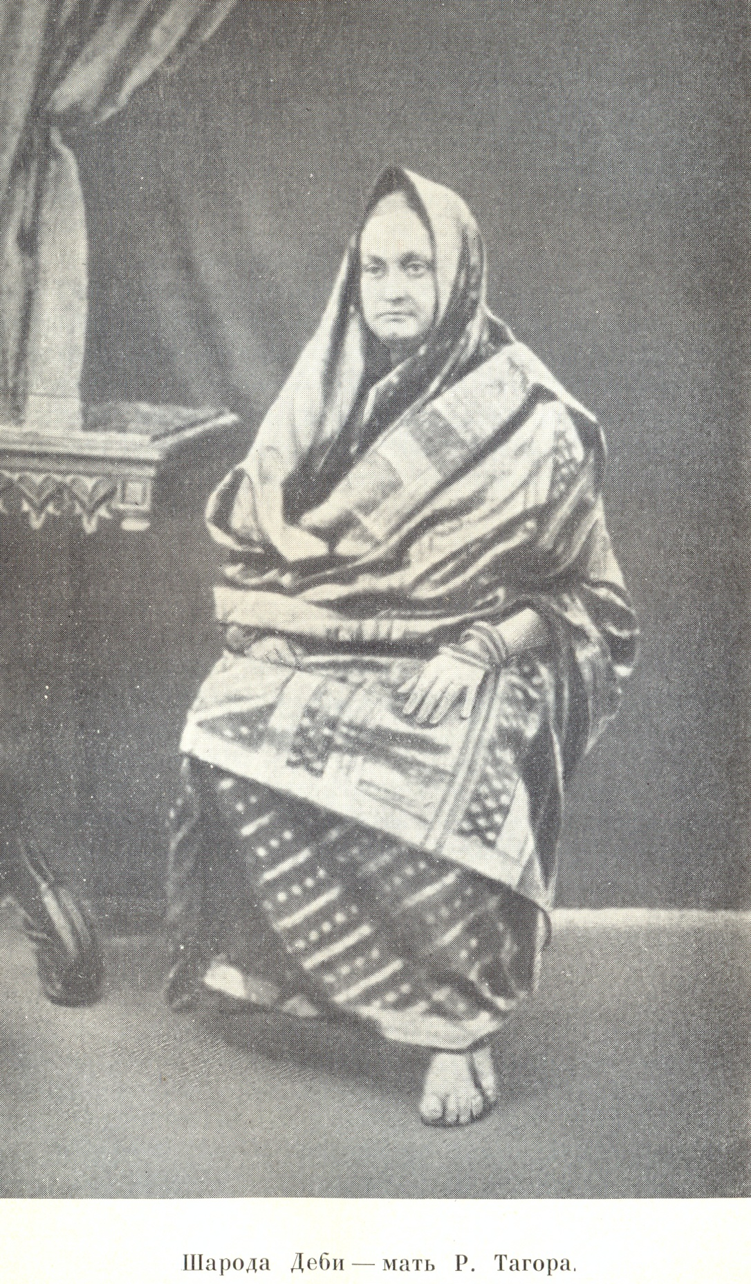 Sarada Devi, mother of Rabindranath Tagore